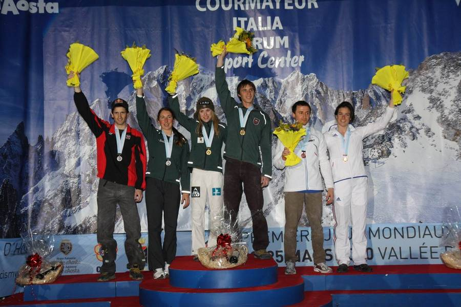 Podium for the men's and women's climbing event at the 2010 Winter Military World Games